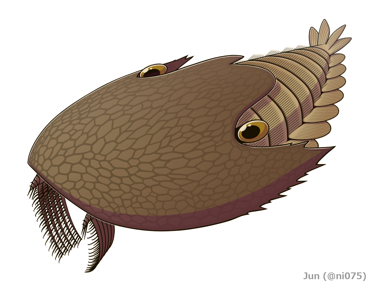 Reconstruction of Cambroraster falcatus, a cambrian hurdiid radiodont (dinocaridid、stem-group arthropod).